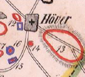 Prehistoric tombs near Höver